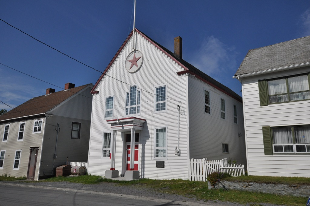 Masonic Lodge Harbour Grace #476 A.F. and A.M., S.C, Harbour Grace, Newfoundland.